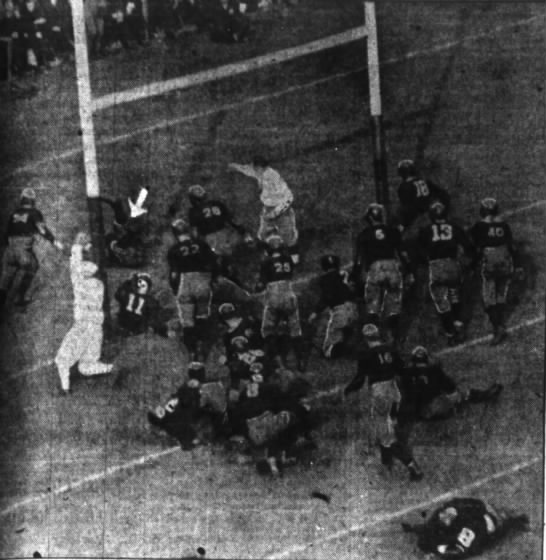 Picture from the 1922 Princeton v. Chicago football game. Chicago was about to go up 18–7 about to score again when it fumbled and Princeton got a touchdown. The arrow points to Gray of Princeton scoring.